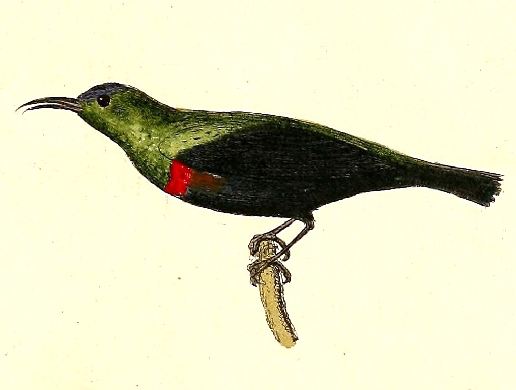 « Nectarinia purpurata » = Cinnyris habessinicus (Shining Sunbird)